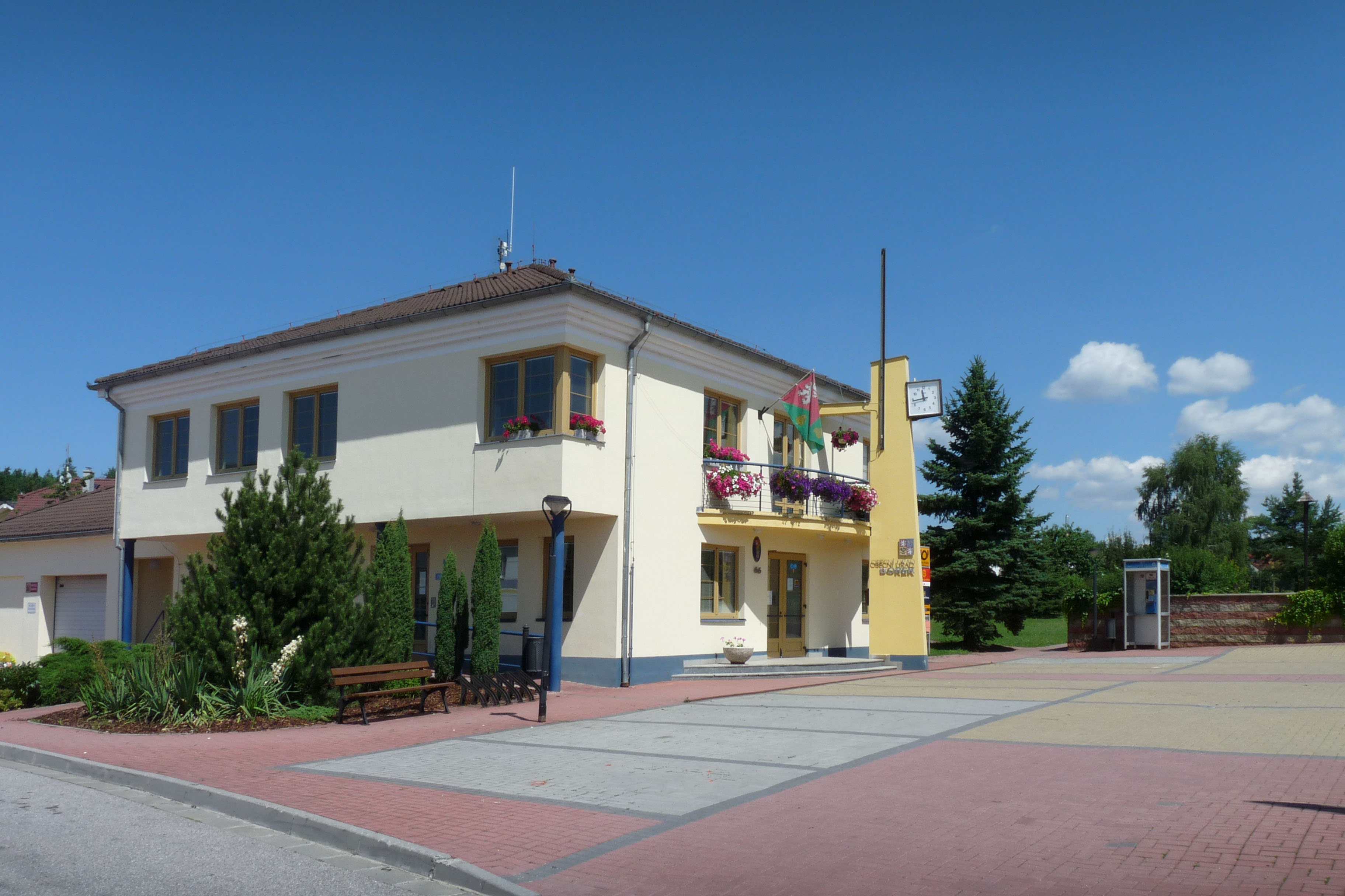 Municipal authority office, local post office and fire station in the village of Borek, České Budějovice District, Czech Republic. Česky: Obecní úřad, pošta a hasičská zbrojnice v obci Borek v okrese České Budějovice.